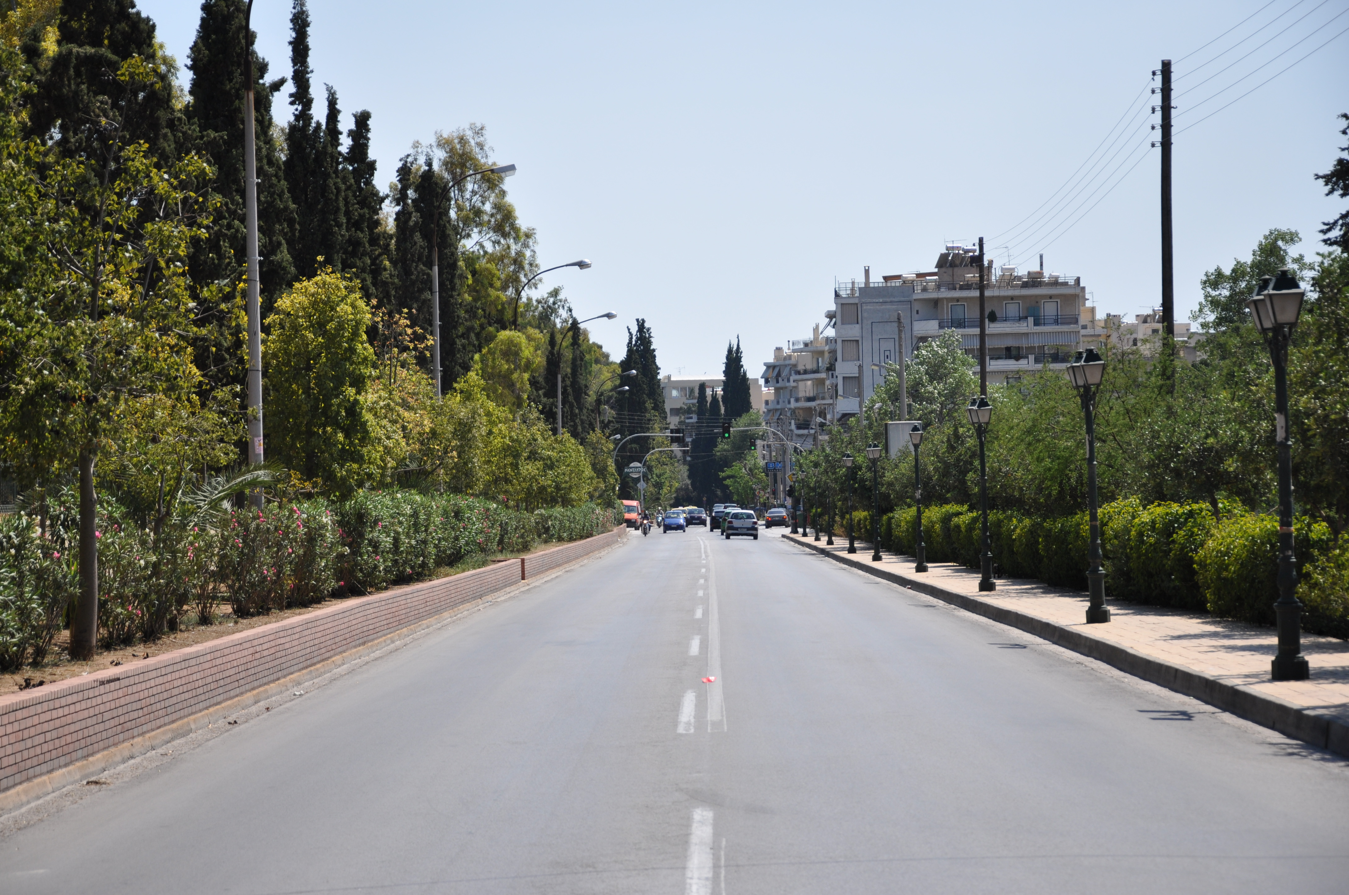 Dekelias Ave - the main street of Nea Filadelfia